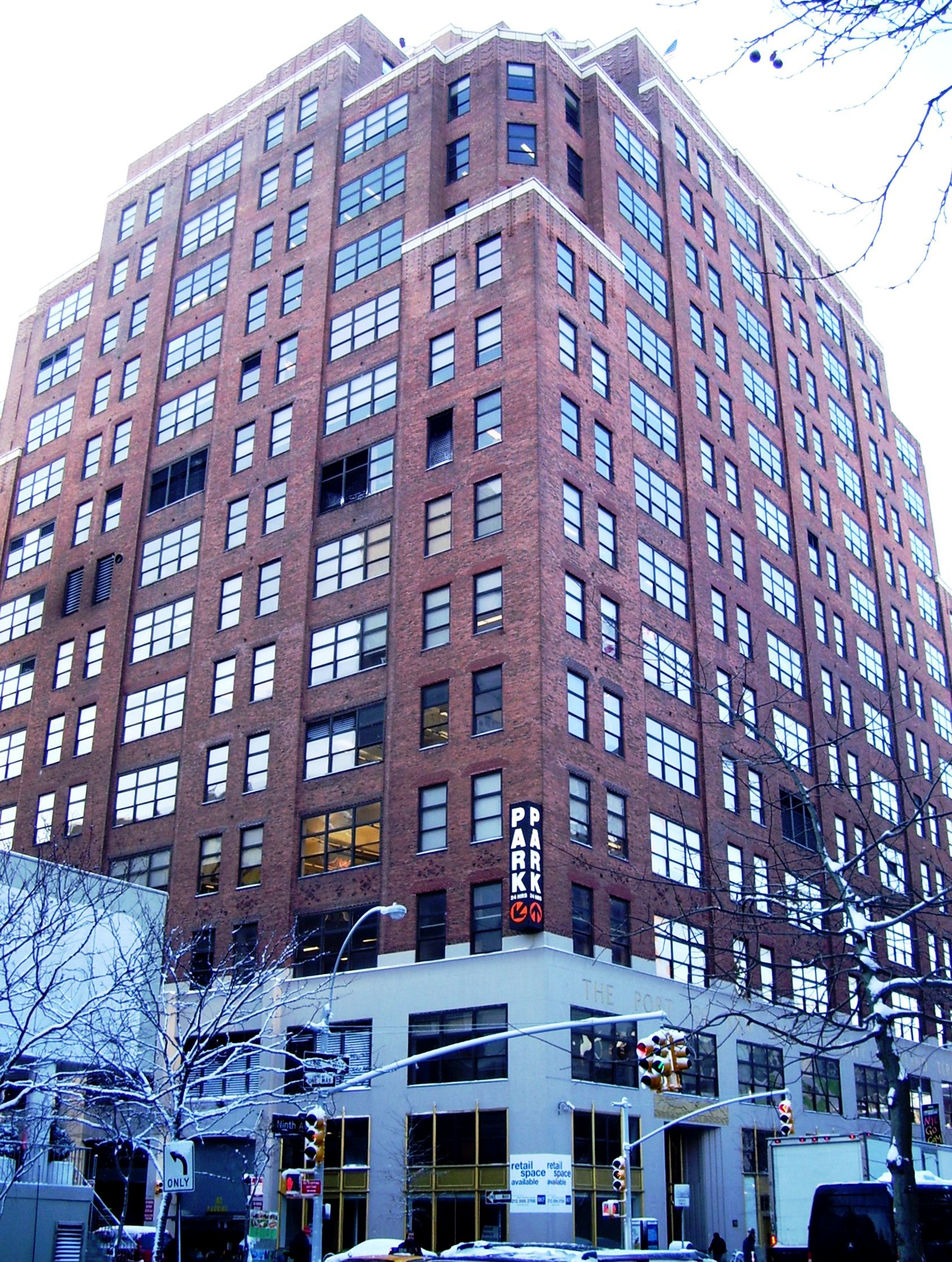 111 Eighth Avenue, formerly Inland Terminal #1, showing the Ninth Avenue end of the full-block building.